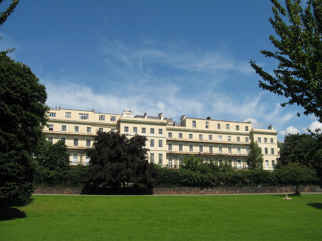 Princes Park Mansions The grade II listed buildings, the elegant Princes Park Mansions which overlook the lake and park.